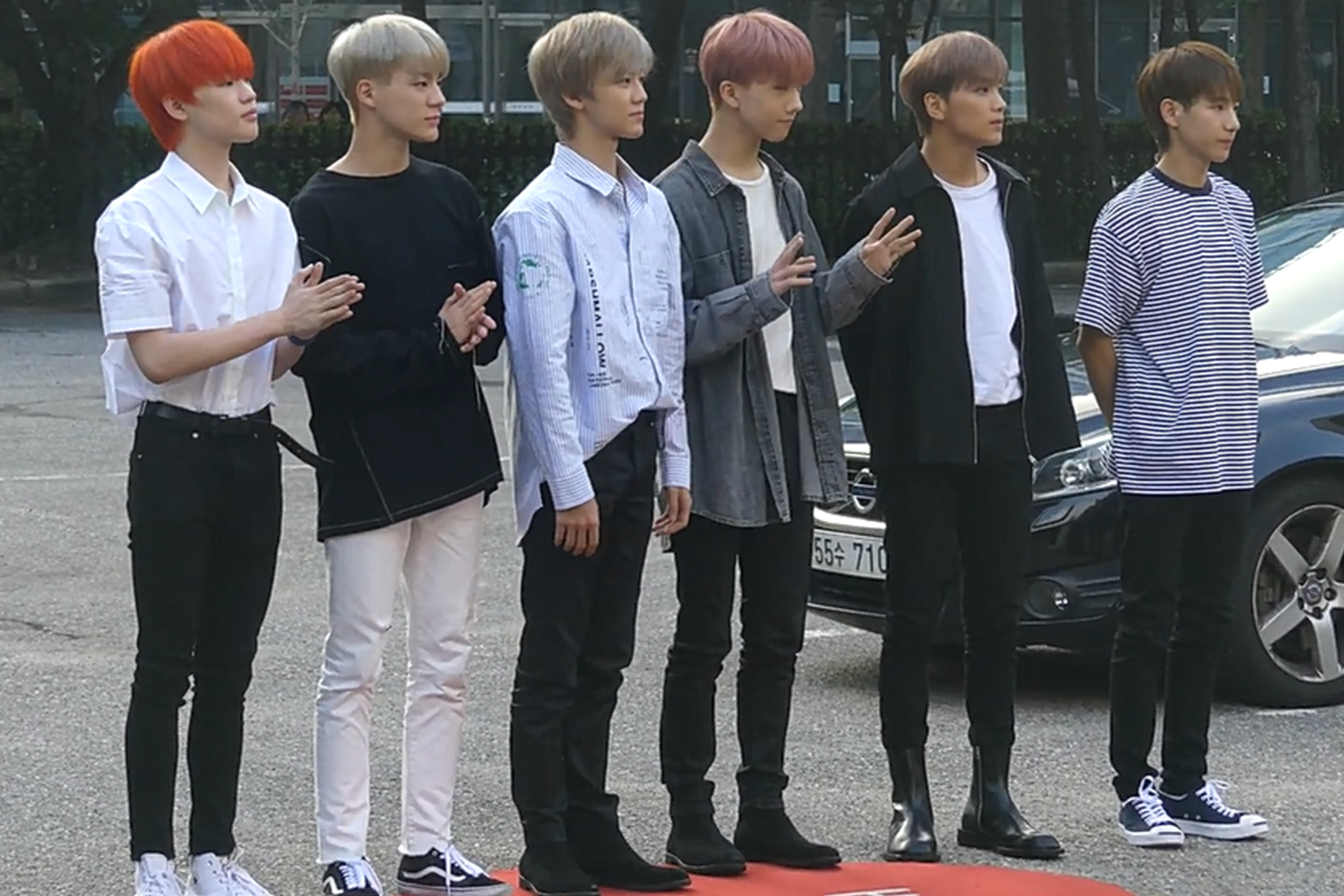 NCT Dream going to a Music Bank recording on August 2, 2019. (L-R: Chenle, Jeno, Jaemin, Jisung, Haechan and Renjun.)